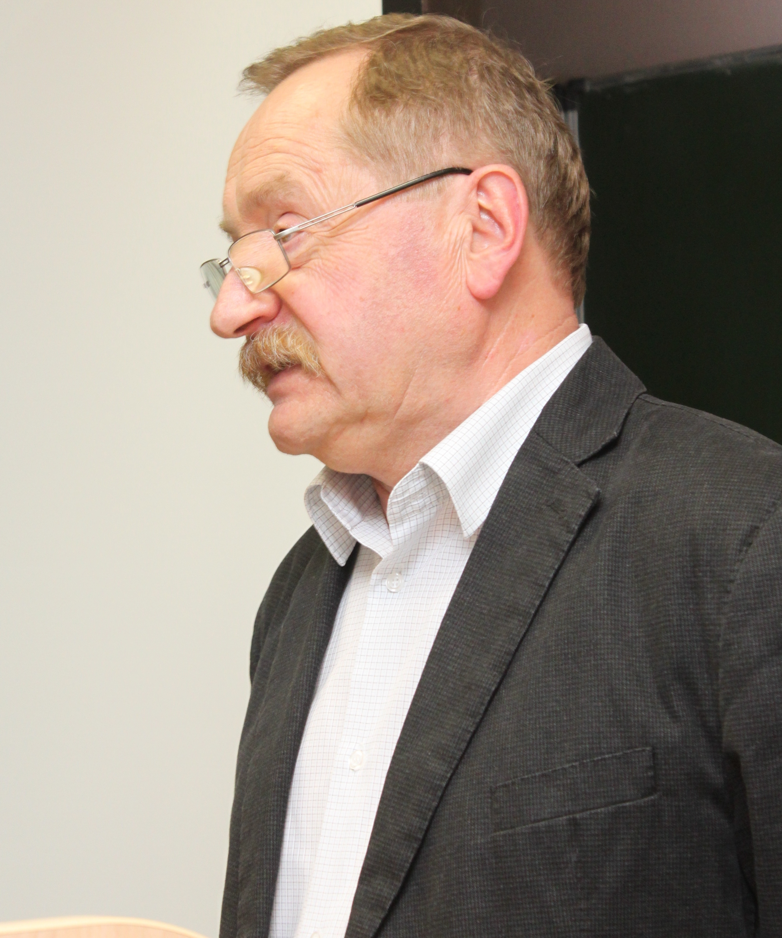 Alexander Vasilyevich Kamkin